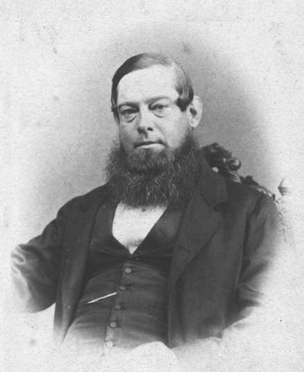 Official portrait of State President J.H. Brand of the Orange Free State, in office 1864-1888.